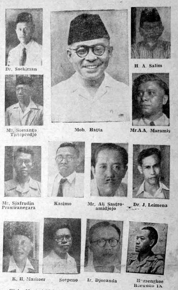 Portraits of the members of the First Hatta Cabinet